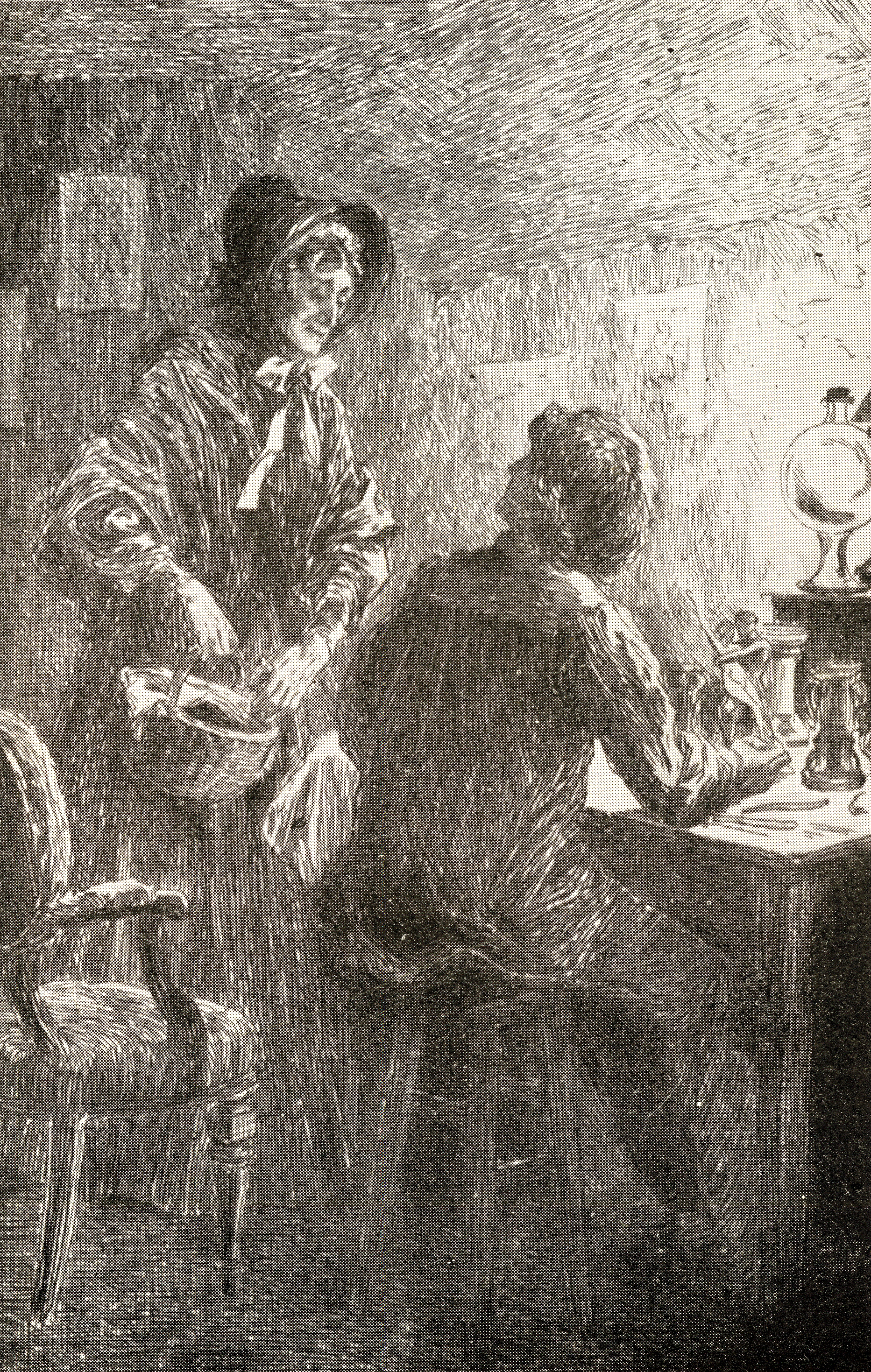 Illustration of La Cousine Bette by Honoré de Balzac. The caption reads: "Wenceslas Steinbock looked at her with a bewildered air."